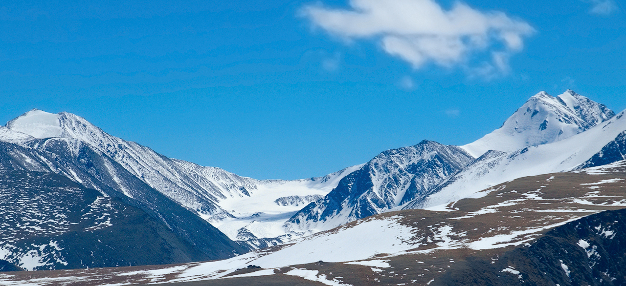 Tops Testa and Irbista in the Gorny Altai